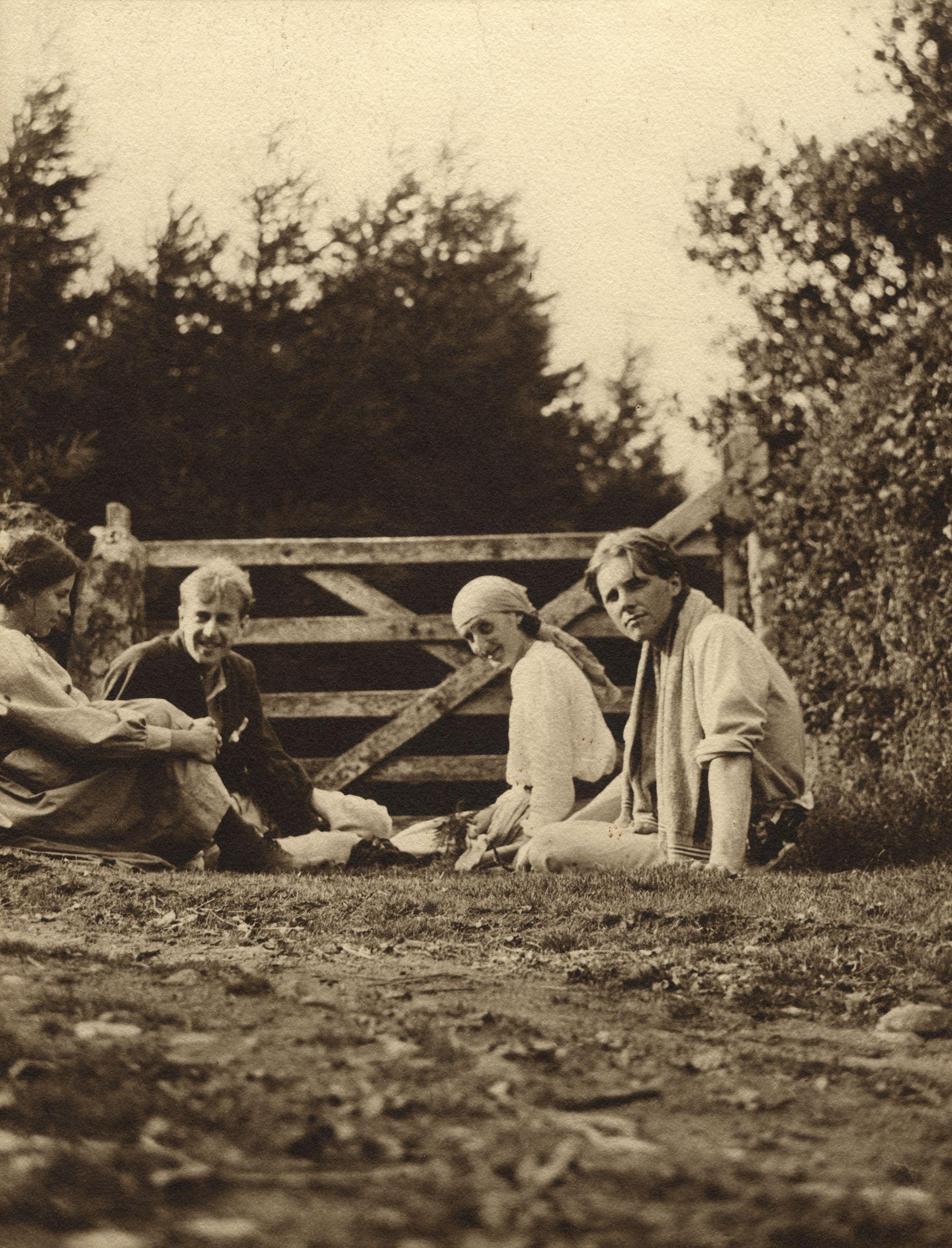 left to right: Noel Olivier; Maitland Radford; Virginia Woolf (née Stephen); Rupert Brooke, by unknown artist. All images in this batch have an unknown author